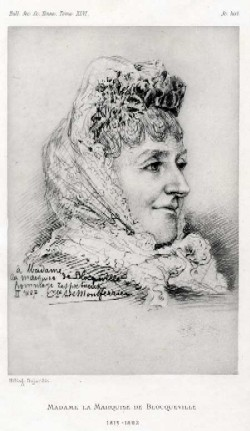 French poetess and youngest daughter of the "Iron Marshal", Louis Nicolas Davout (1770-1823), Adélaïde-Louise d'Eckmühl de Blocqueville (1815-1892)